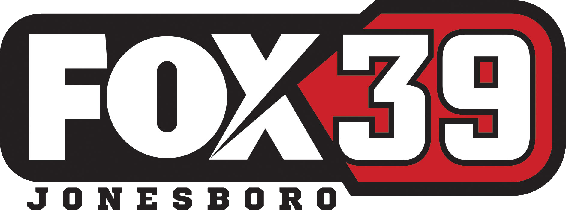 This Was The Logo Of KJNB-LD1 & KJNE-LD1 ("Fox 39"), From June 1, 2015 Until November 2, 2017.